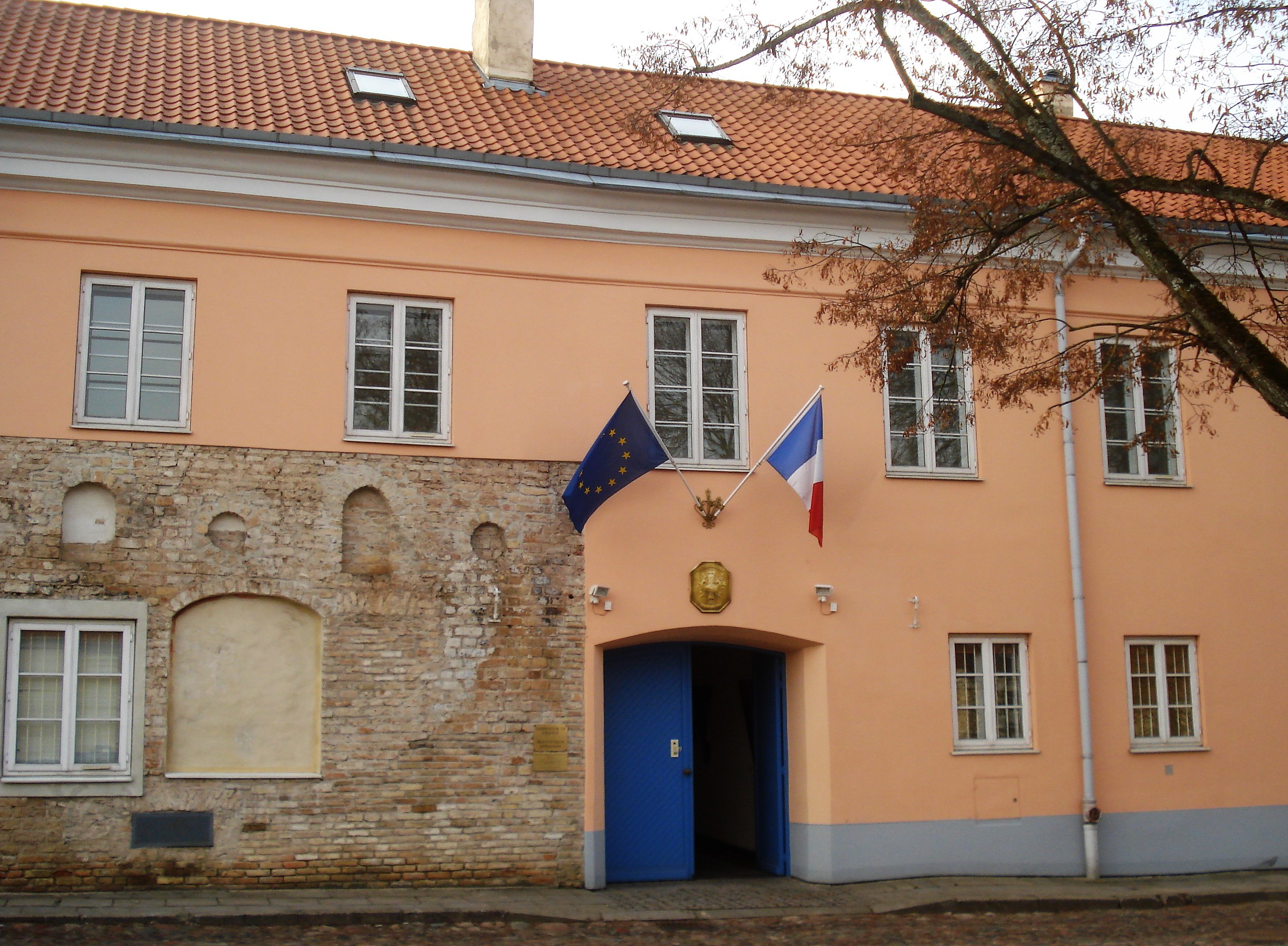 French Embassy in Vilnius (Lithuania)